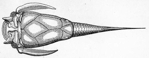 Fig. 104.—Pterichthys cornutus. Old Red Sandstone, Scotland. (After Agassiz.)